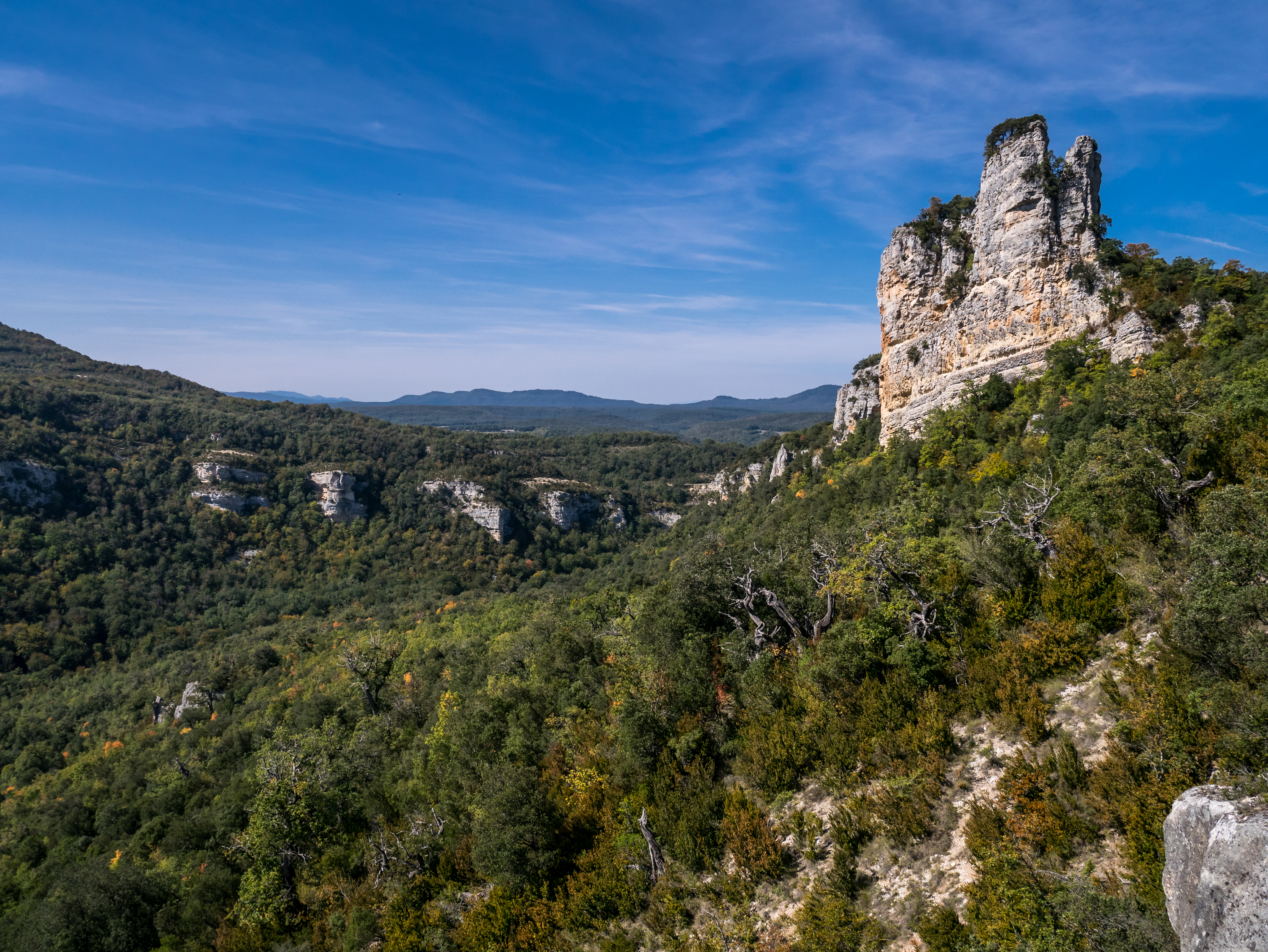 Summit of Peña del Castillo and Izki Canyon. Izki, Álava, Basque Country, Spain